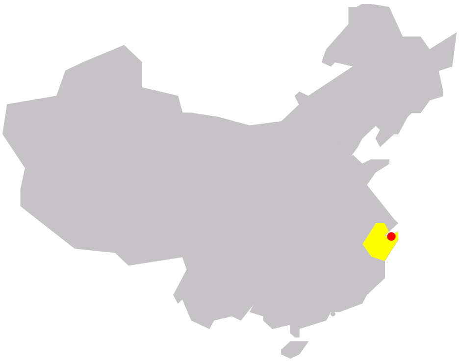 Location of Ningbo in China.